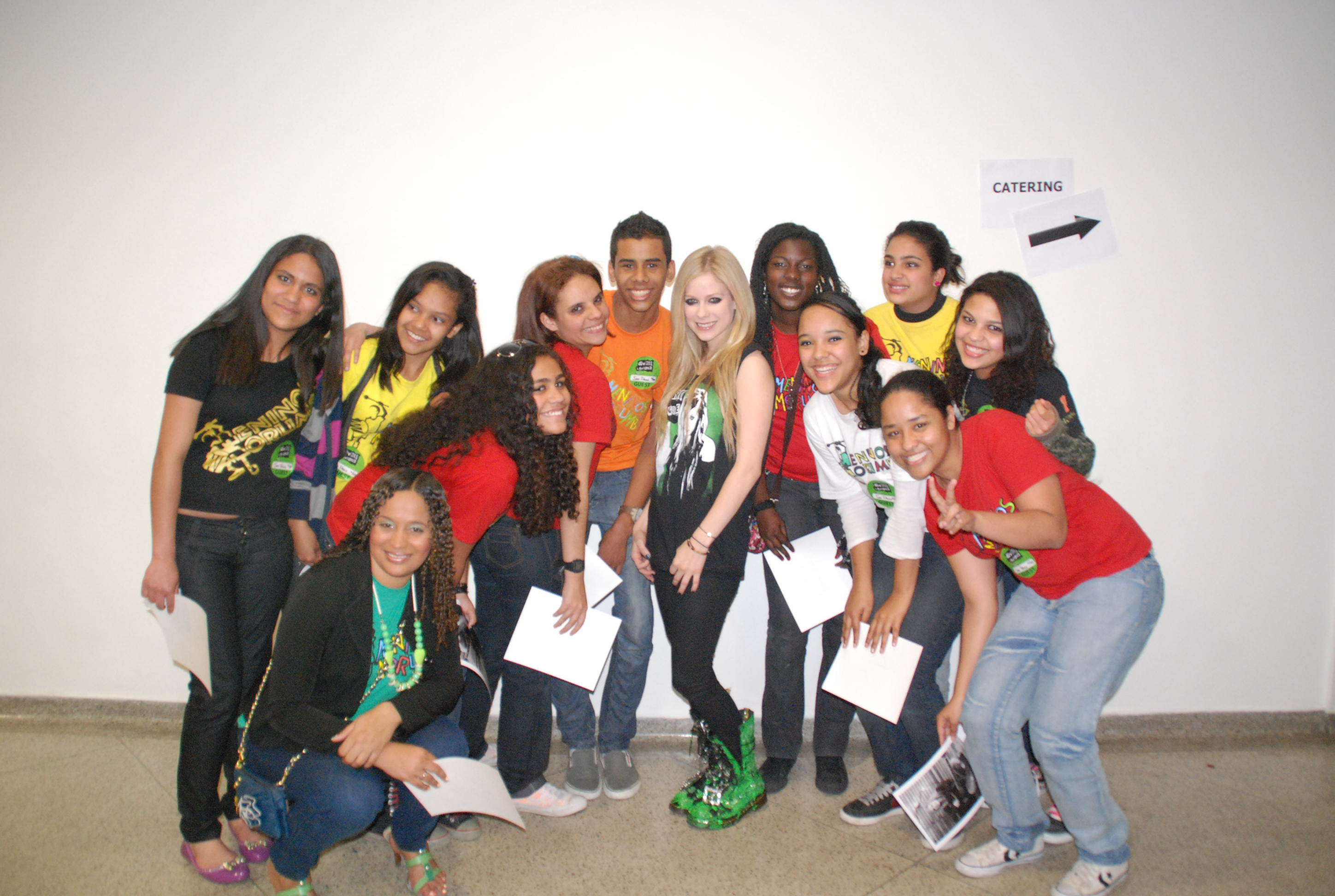 Avril Lavigne engaging in "pop diplomacy" with eleven Brazilian children.